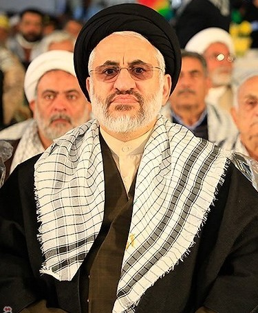 Seyyed Mohammad Baqir Ebadi